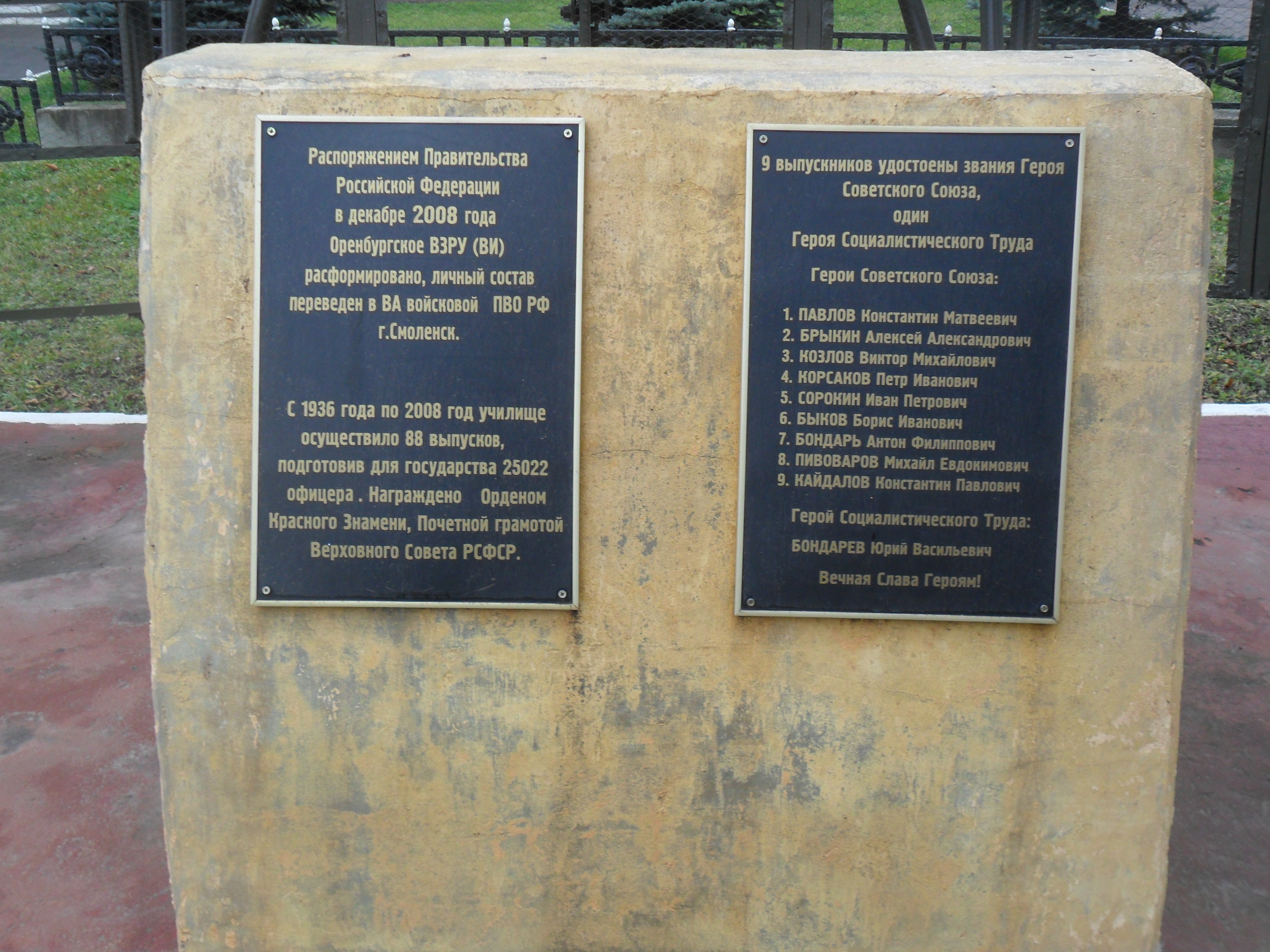 Commemorative plaque with the history of the Orenburg military school and the names of graduates - Heroes of the Soviet Union and Hero of Socialist Labor. Located in Smolensk, on the street Lavochkin, the CAT number 1 Air Defense Military Academy.